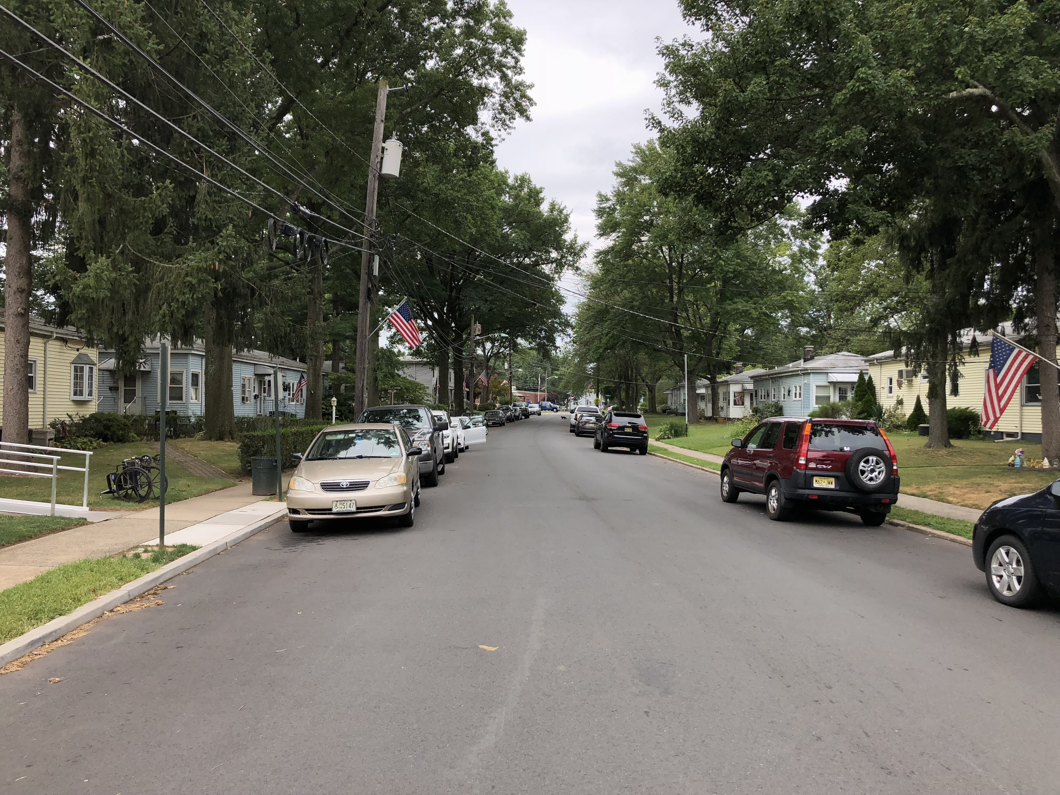 View west along Gulfstream Avenue at Wavecrest Avenue in Winfield Township, Union County, New Jersey